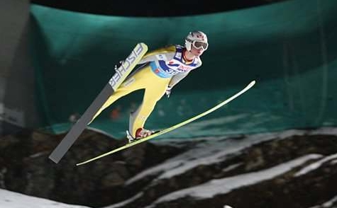 Rune Velta during canceled competition of FIS Ski-Flying World Championships 2012.